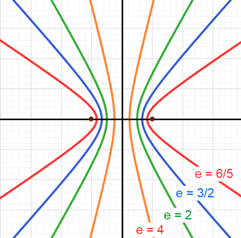 Hyperbolas with fixed focus (ae = 1) and varying eccentricity